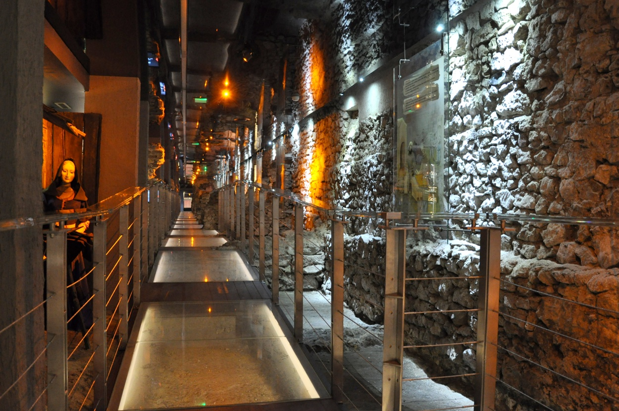 The underground of the Main Square in Krakow, so-called the Rich Stalls.